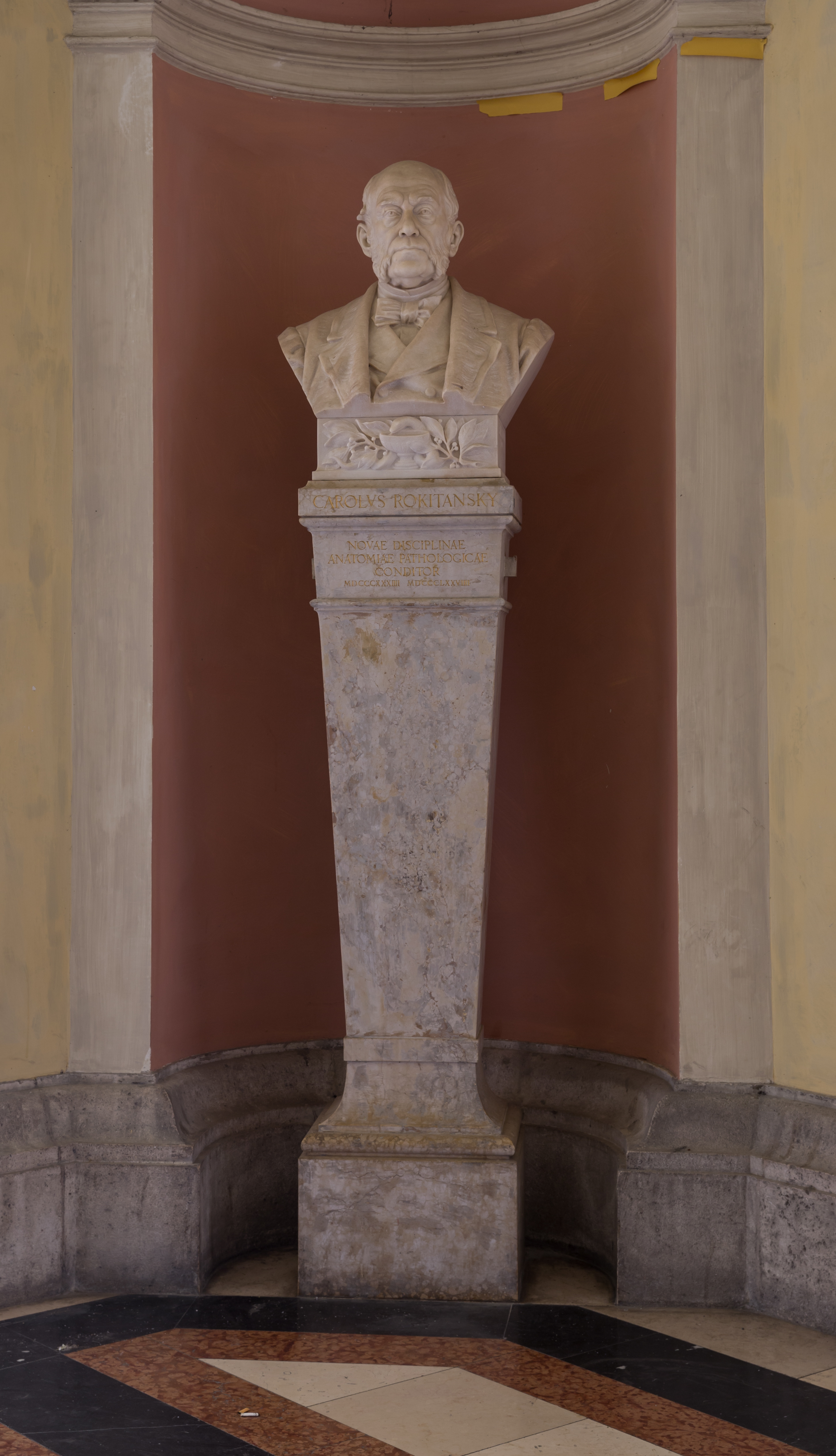 Carl von Rokitansky (1804-1878), bust (marble) in the Arkadenhof of the University of Vienna, (Maisel# 54). Artist: Alexius von Swoboda (1830-1915), unveiled 1898 The making of this work was supported by Wikimedia Austria. For other files made with the support of Wikimedia Austria, please see the category Supported by Wikimedia Österreich. Alexius von Swoboda, unveiled 1898), Arkadenhof UniversitÃ¤t Wien